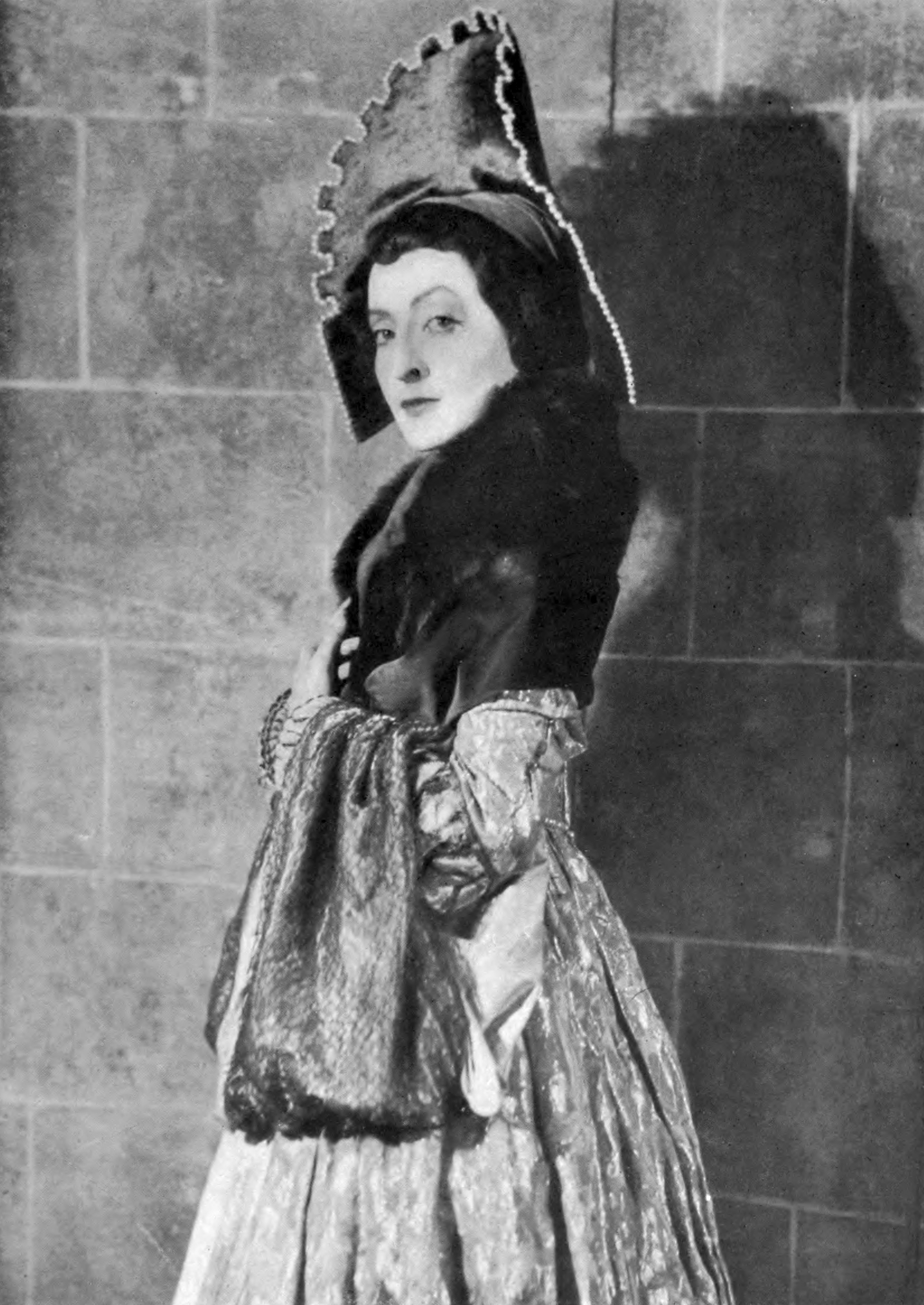 Portrait photograph of Clare Eames as Princess Elizabeth in the Broadway production of The Prince and the Pauper Caption reads as follows: Clare Eames as Princess Elizabeth One performance stood out above all others in the production of The Prince and the Pauper, at the Booth—the notable impersonation of England's virgin queen by this practically unknown actress, seen only once before on Broadway in a small part in Déclassée